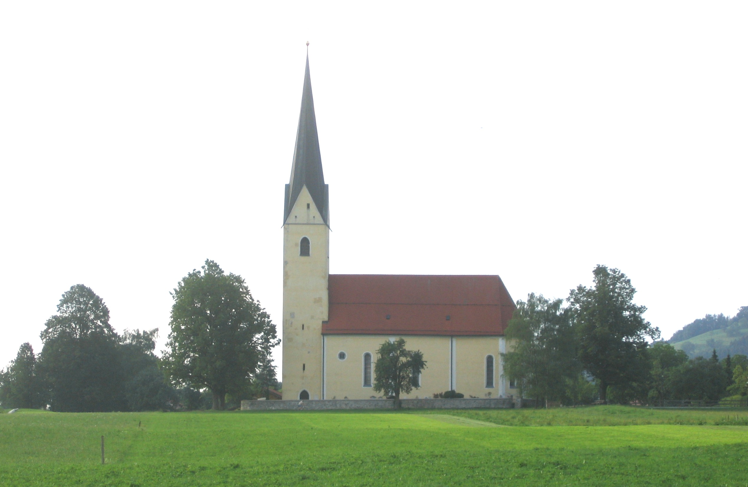 Nußdorf am Inn, view of Saint Leonard Sanctuary from south.